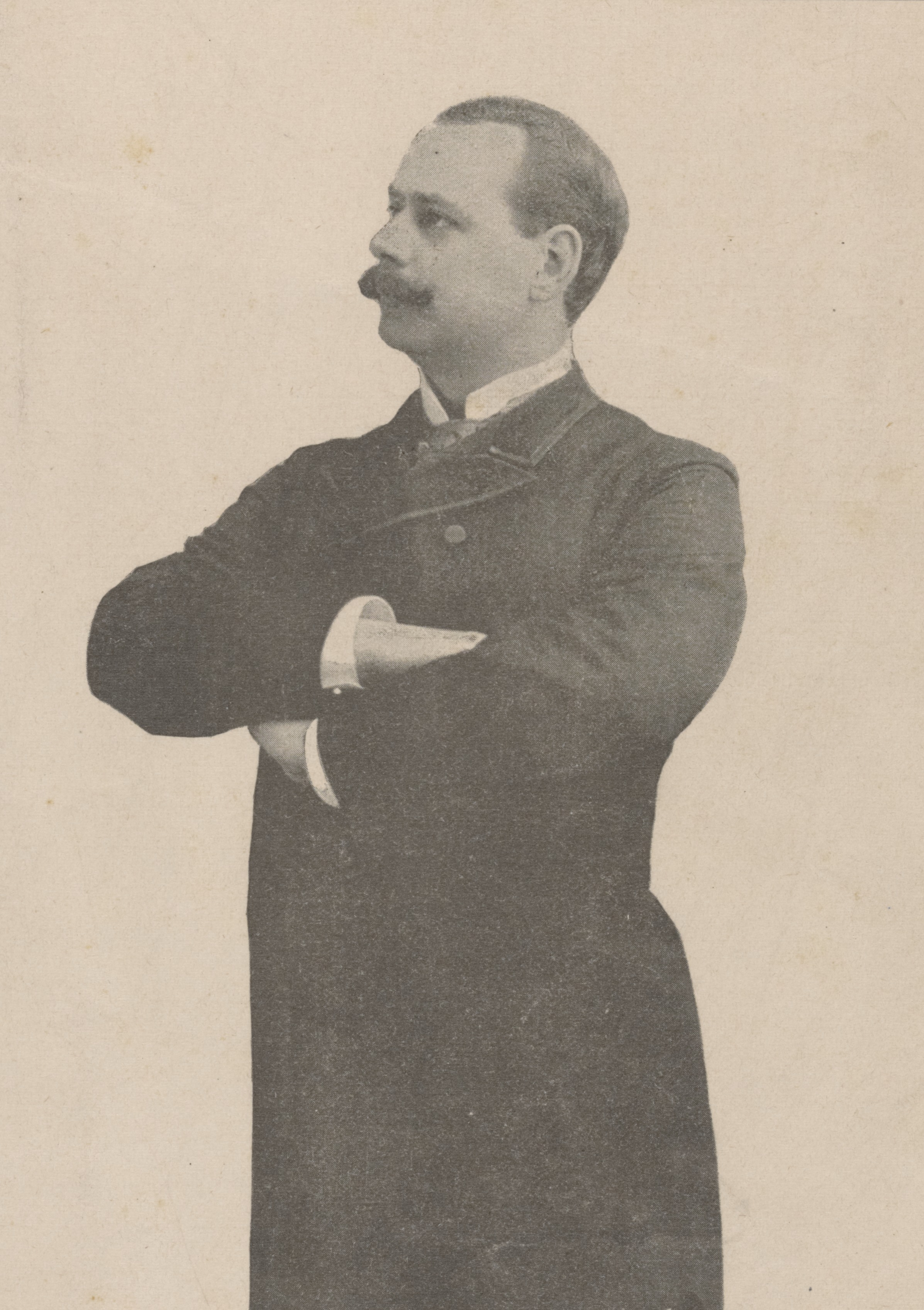 Sheet music cover for After the Ball with songwriter Charles K. Harris